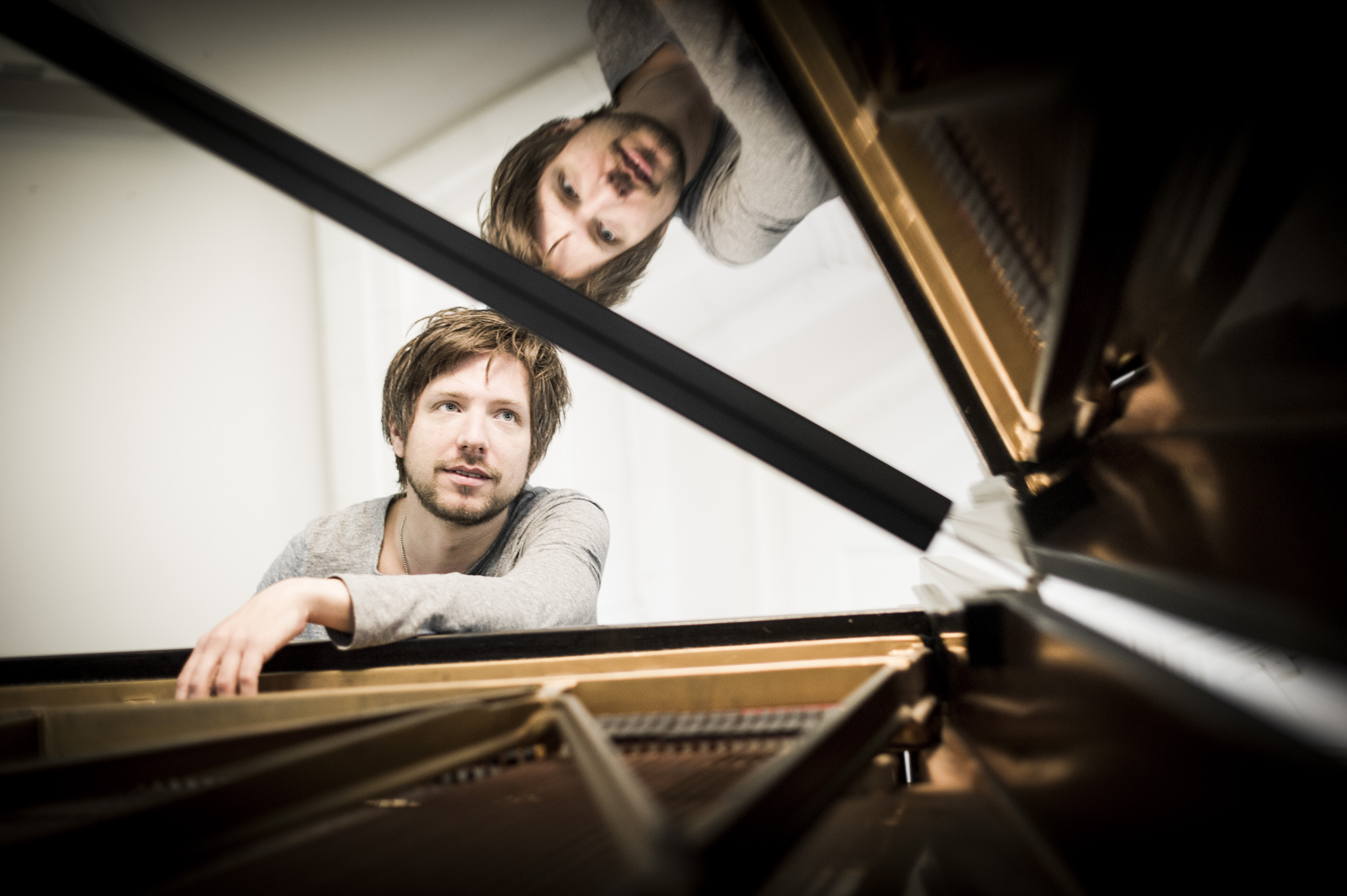 Jean Paul Brodbeck Pianist & Composer